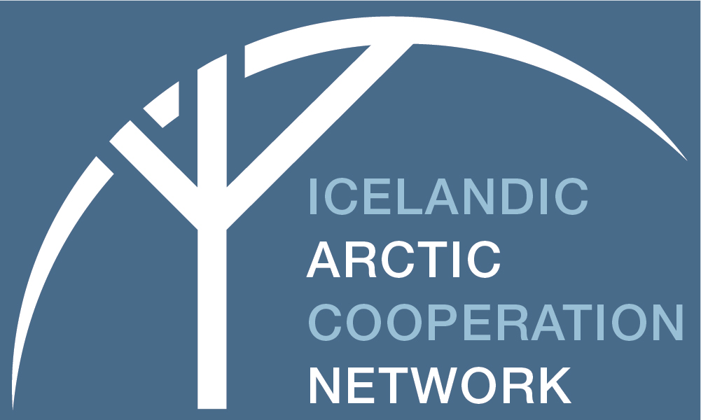 Icelandic Arctic Cooperation Network